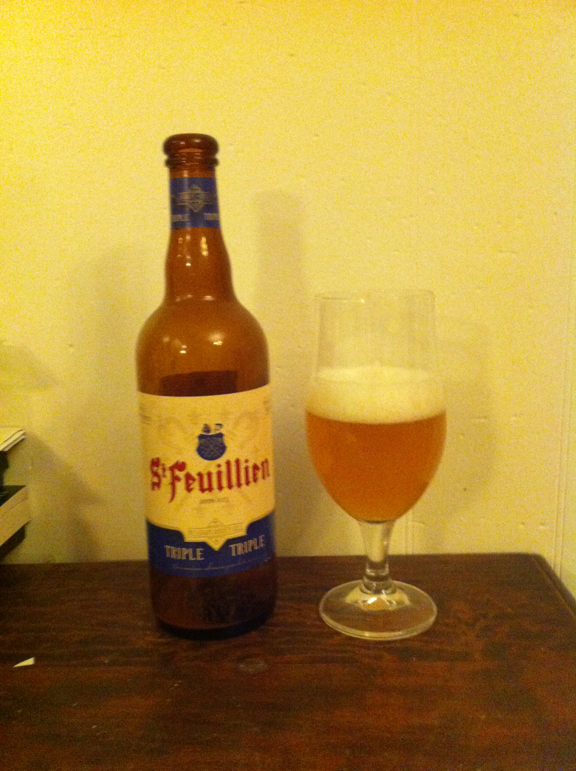 This is a photograph of a St. Feullien Brewery Tripel bottle, with some of that delicious beer in a glass. Other information I apologize for the low quality. Feel free to color/tweak/whatever.